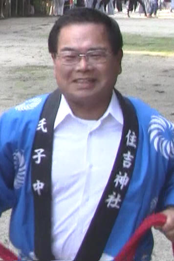 Naokazu Takemoto